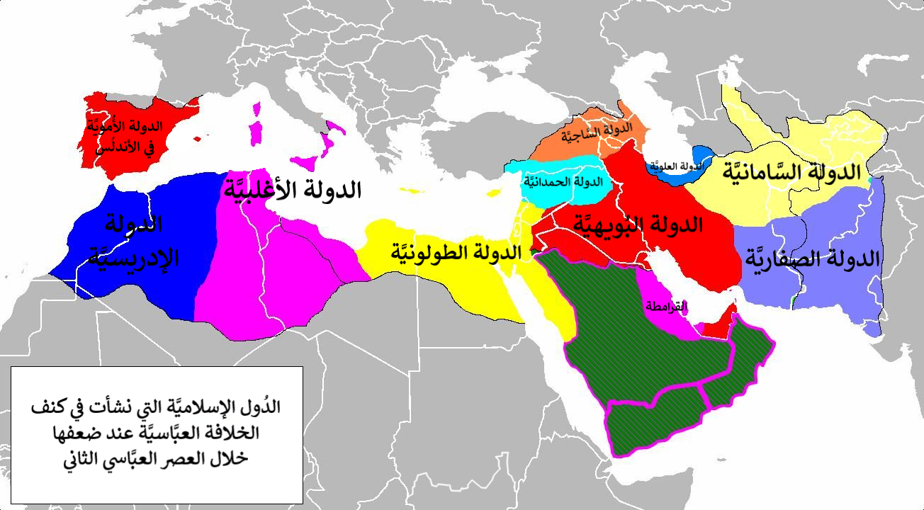 Isochronic map of Caliphate fragmentation (Arabic)